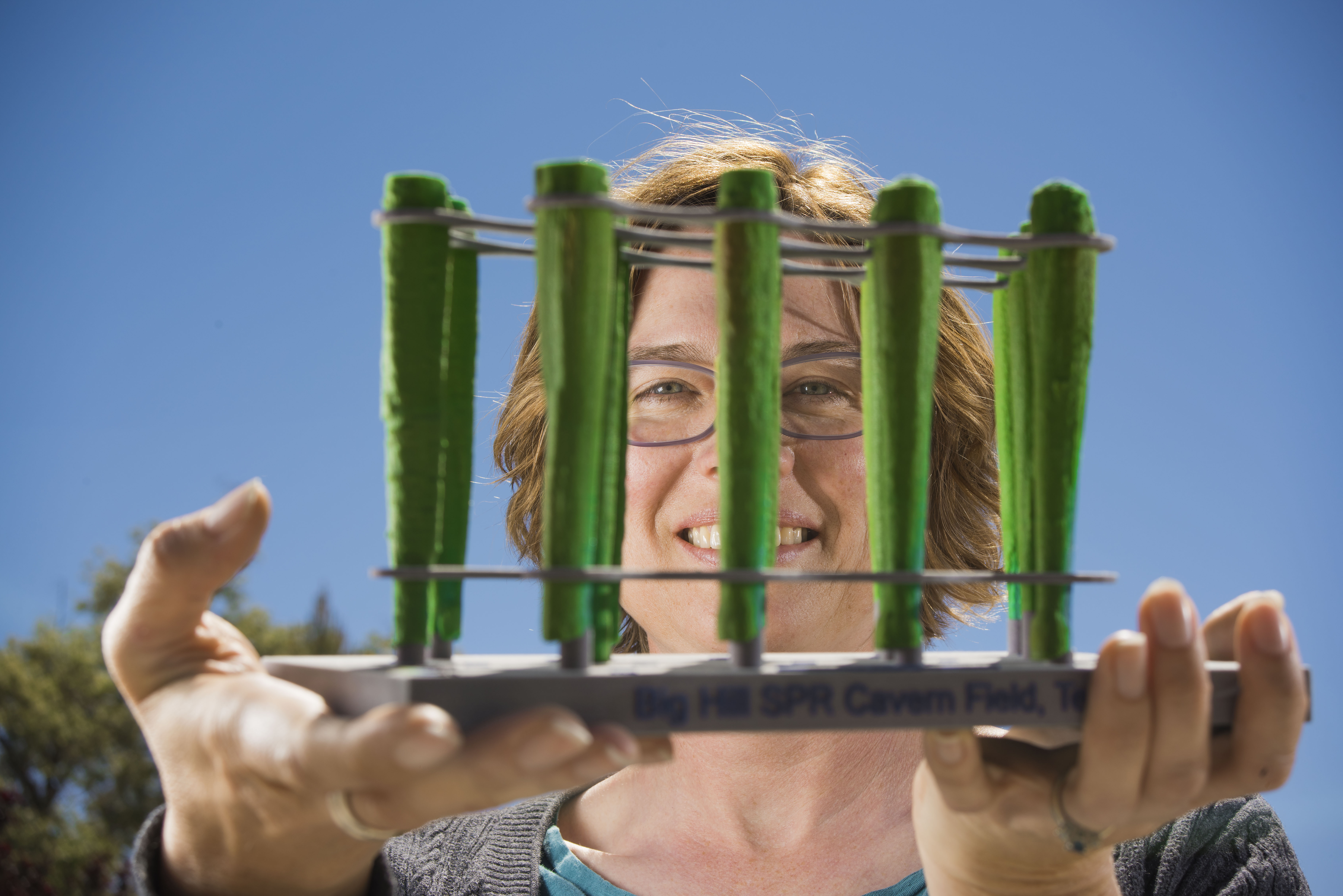 Sandia National Laboratories researcher displays a model of the Big Hill cavern field in Texas, part of the nation’s Strategic Petroleum Reserve where oil is stored in underground salt caverns. Sandia has been the geotechnical adviser for the reserve since 1980 and is responsible for characterizing the site, including cavern and well development, geomechanical analysis, the integrity of caverns and wells, subsidence and monitoring. For more information or additional images: (202) 586-5251